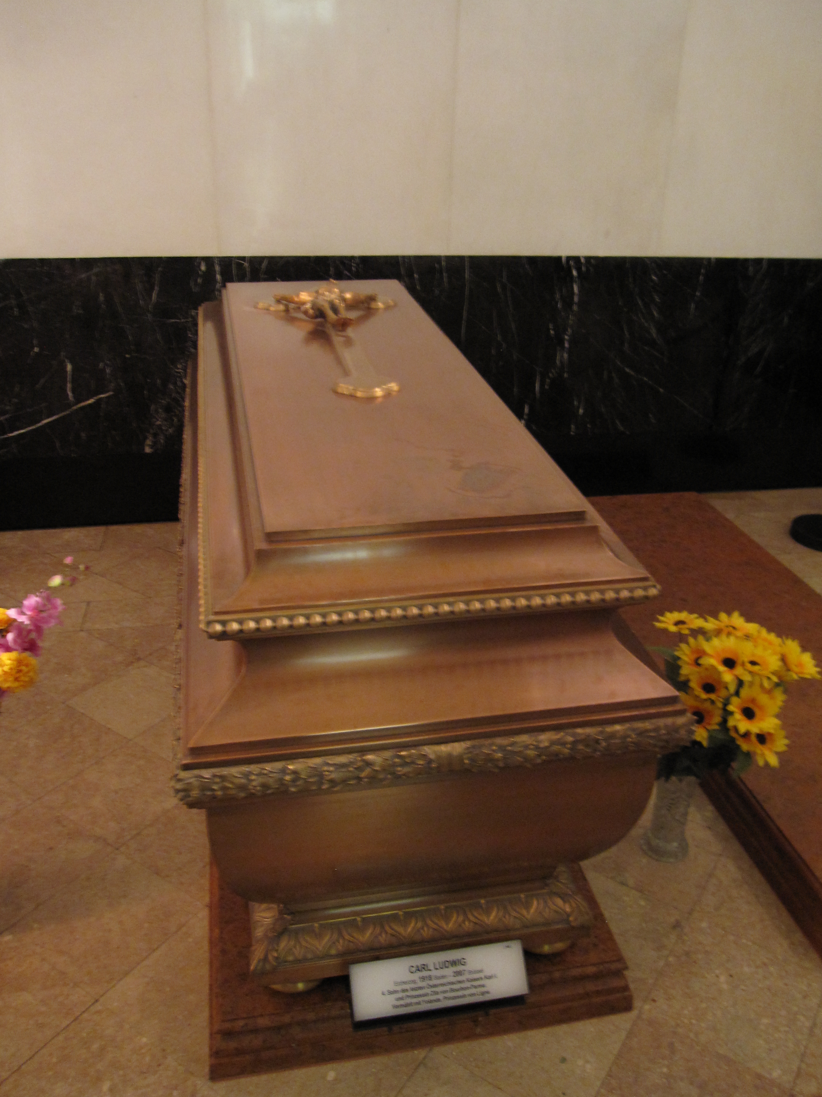 Coffin of Archduke Carl Ludwig, brother of Otto von Habsburg-Lothringen.